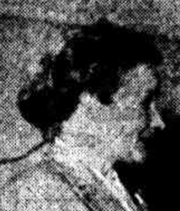 Dame Marjorie Parker (1900-1991), better known as Margot Parker, was an Australian civic and political activist